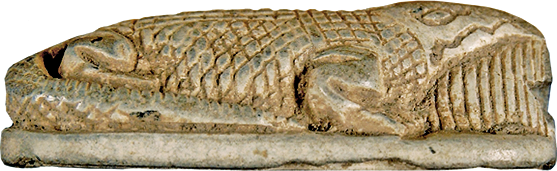 On top of the plaque is the figure of a crocodile, sculpted in the round, and on the base is the sacred boat with the sun-disk, as well an inscription with the name of Amun-Re. The sun-boat itself is a cryptographic sign for the god Amun-Re.